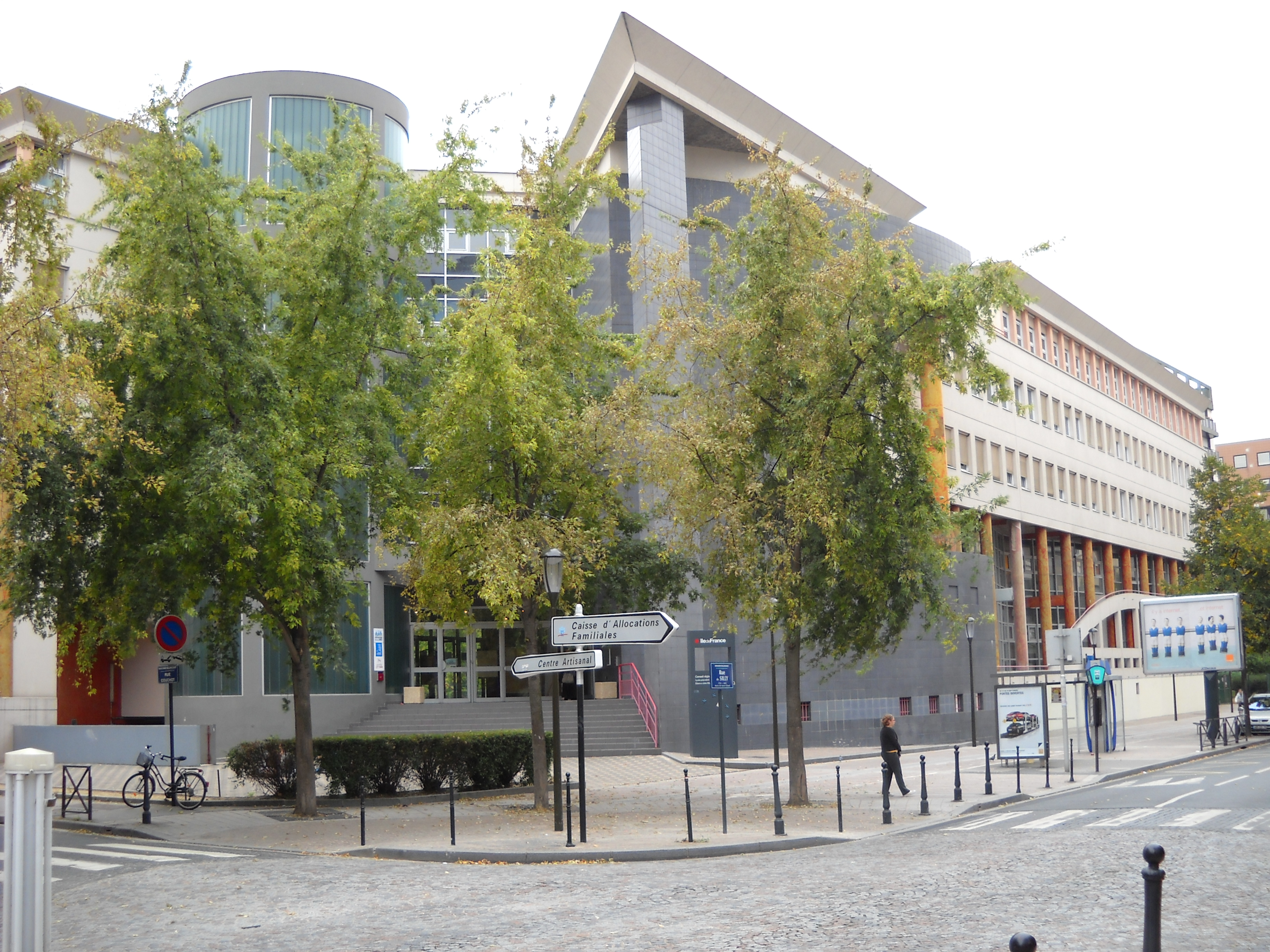 E.J. Marey high school, in Boulogne-Billancourt, Hauts-de-Seine, France.